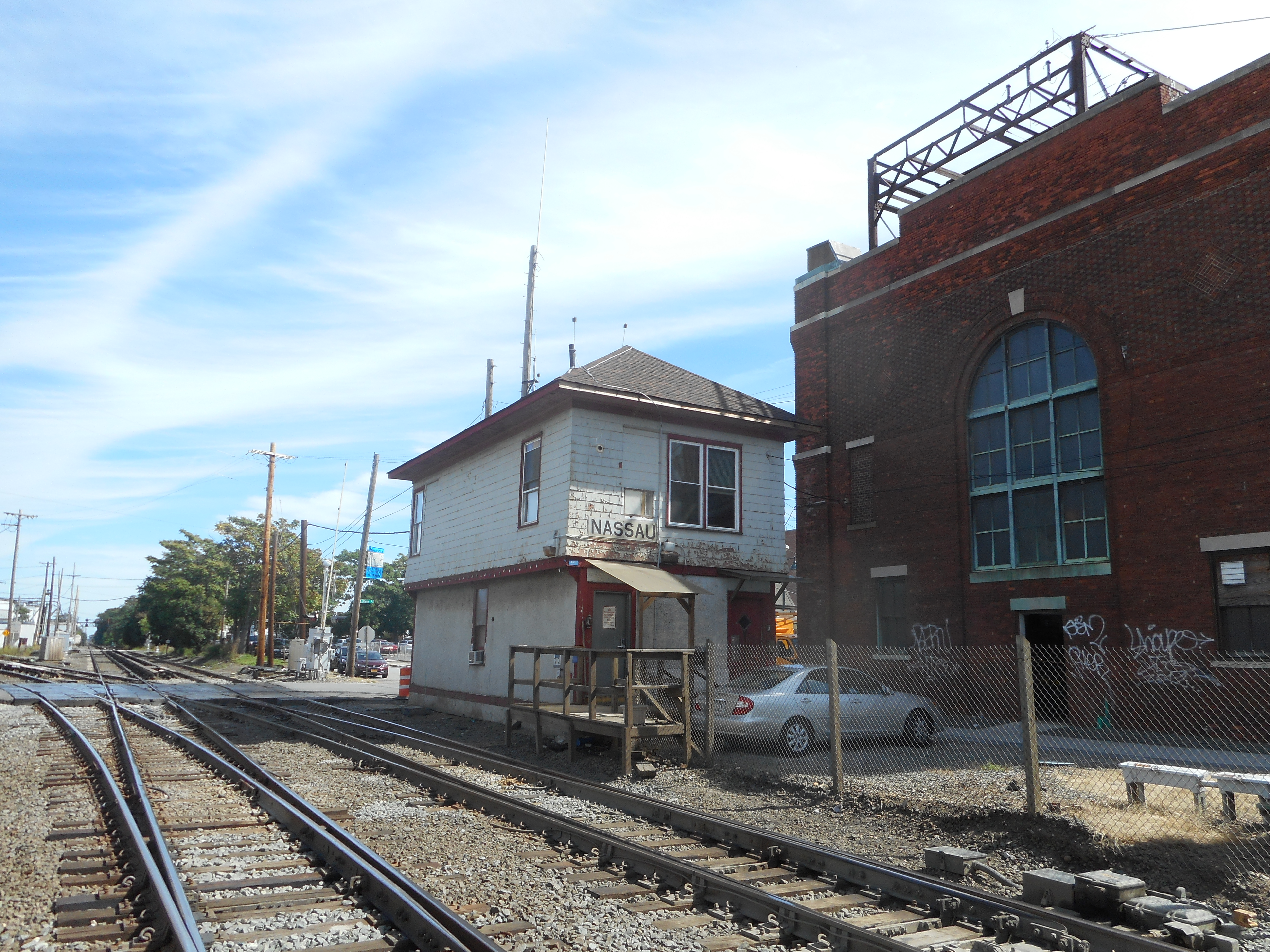 The Nassau Tower and part of the Long Island Rail Road substation as seen from the pedestrian crossing just west of Main Street in Mineola, New York. The south end of the Oyster Bay Branch is at the grade crossing with Main Street.